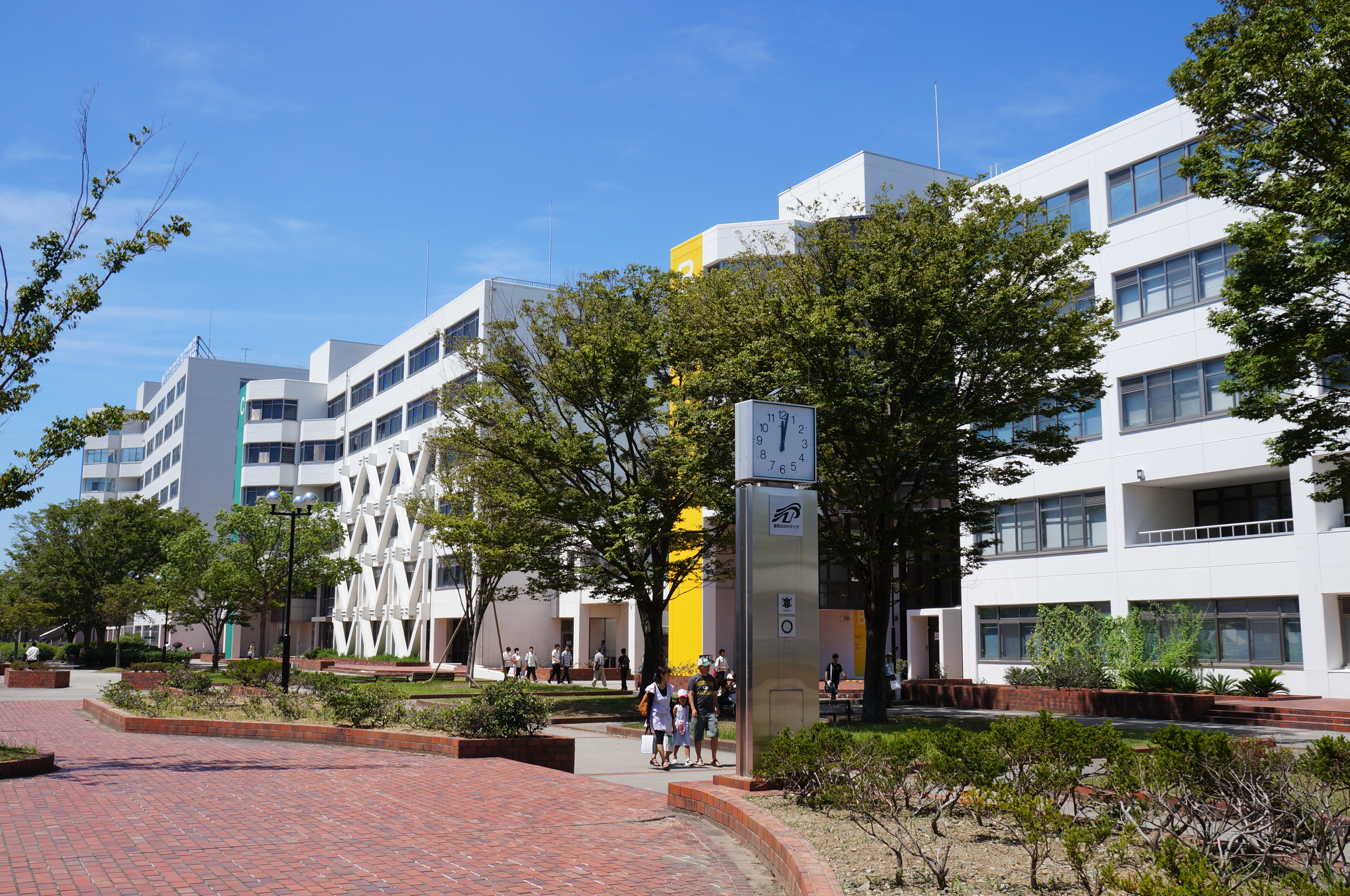 Toyohashi University of Technology in Toyohashi City, Aichi Prefecture, Japan.